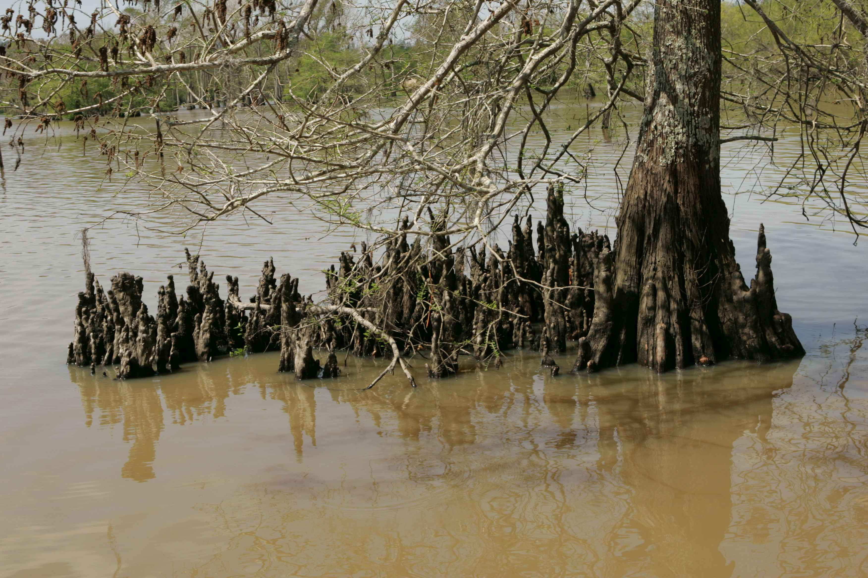 Image title: Taxodium distichum bald cypress trunk and knees Image from Public domain images website